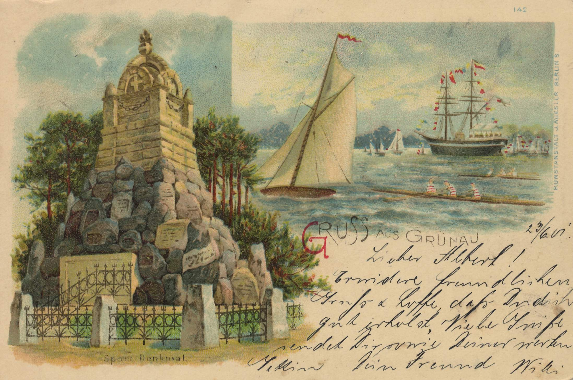 an old postcard from 1901 showing the Sport-Denkmal (sport memorial) in Berlin-Grünau